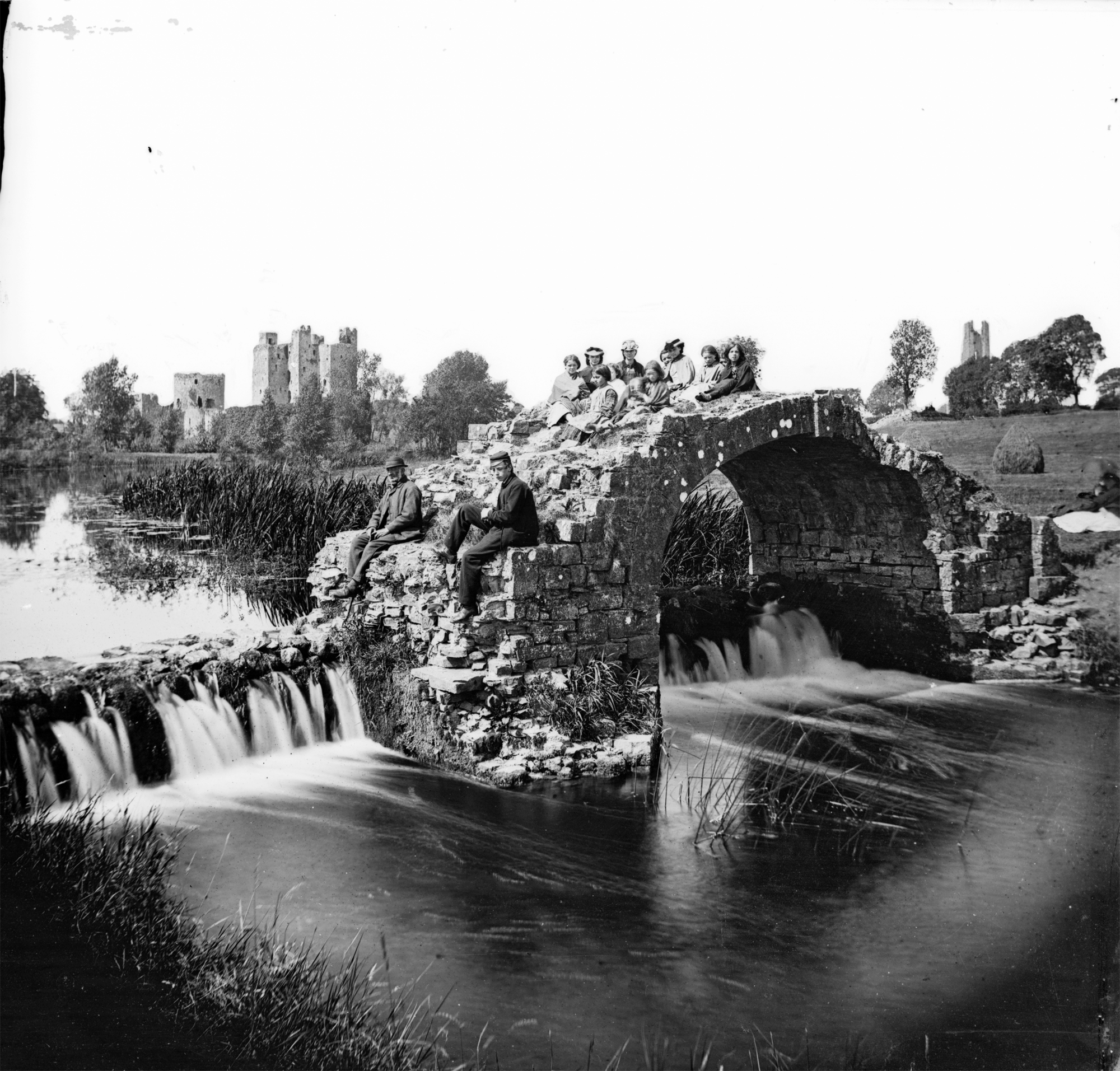 Spooky quality about this one, between the ruins and the bridge and the water… Also rather an odd mix in the group atop the bridge - rich, or at least well-to-do young women, alongside barefoot children... We asked if anyone knew where this was. Answer came back about 10 minutes later - see comments below... Date: 1860-1888 NLI Ref.: STP_0516